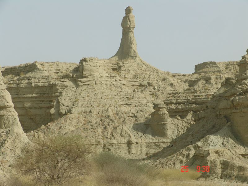 'Princess of Hope', Hingol National Park, in Balochistan, Pakistan.